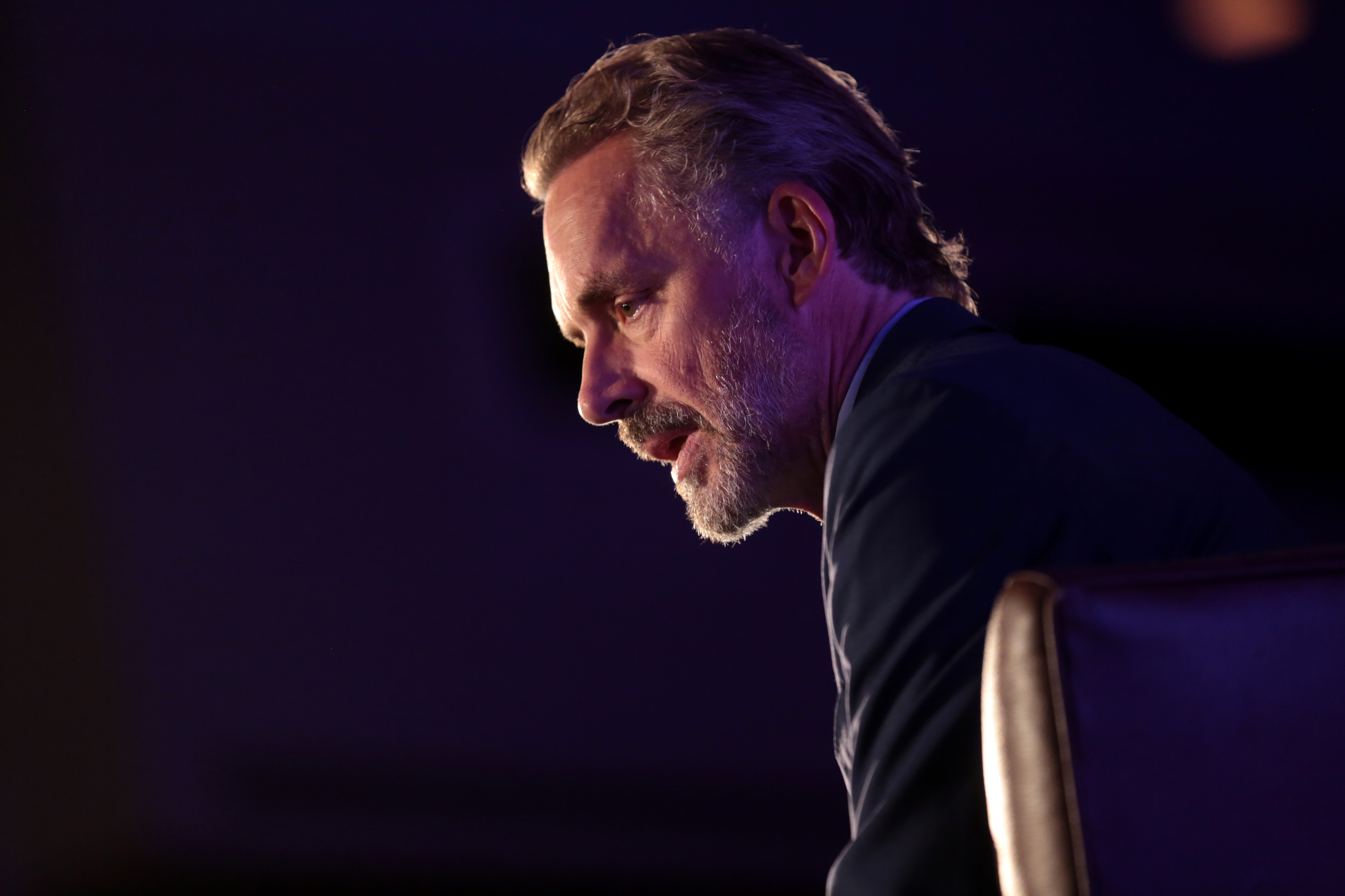 Jordan Peterson speaking with attendees at the 2018 Young Women's Leadership Summit hosted by Turning Point USA at the Hyatt Regency DFW Hotel in Dallas, Texas.